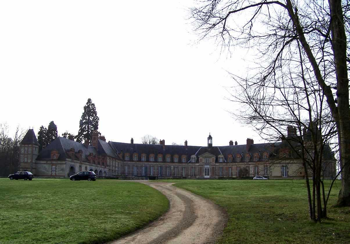 Castle of Gambais (Yvelines, France)